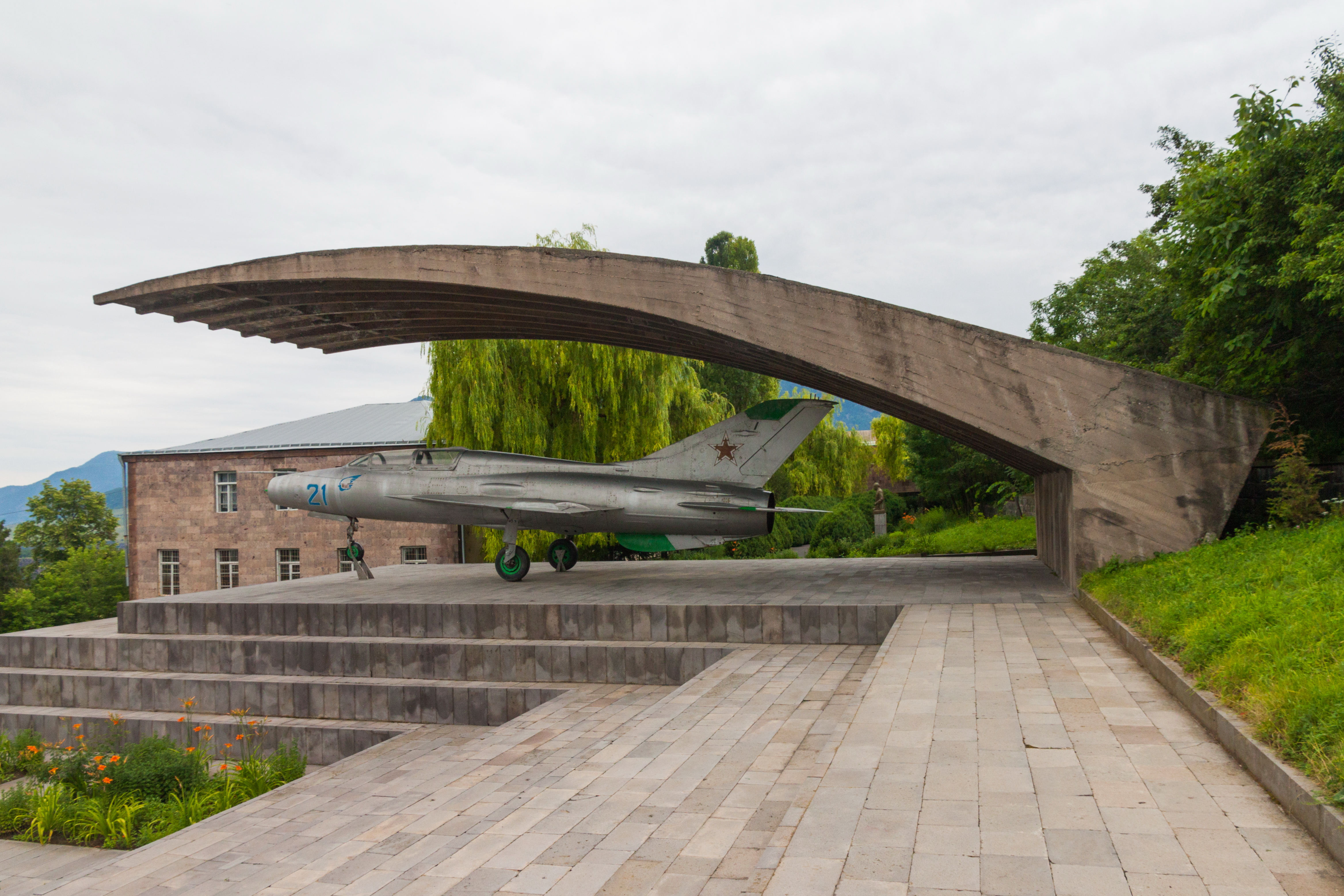 Mikoyan Brothers Museum. Sanahin, Lori Province, Armenia.